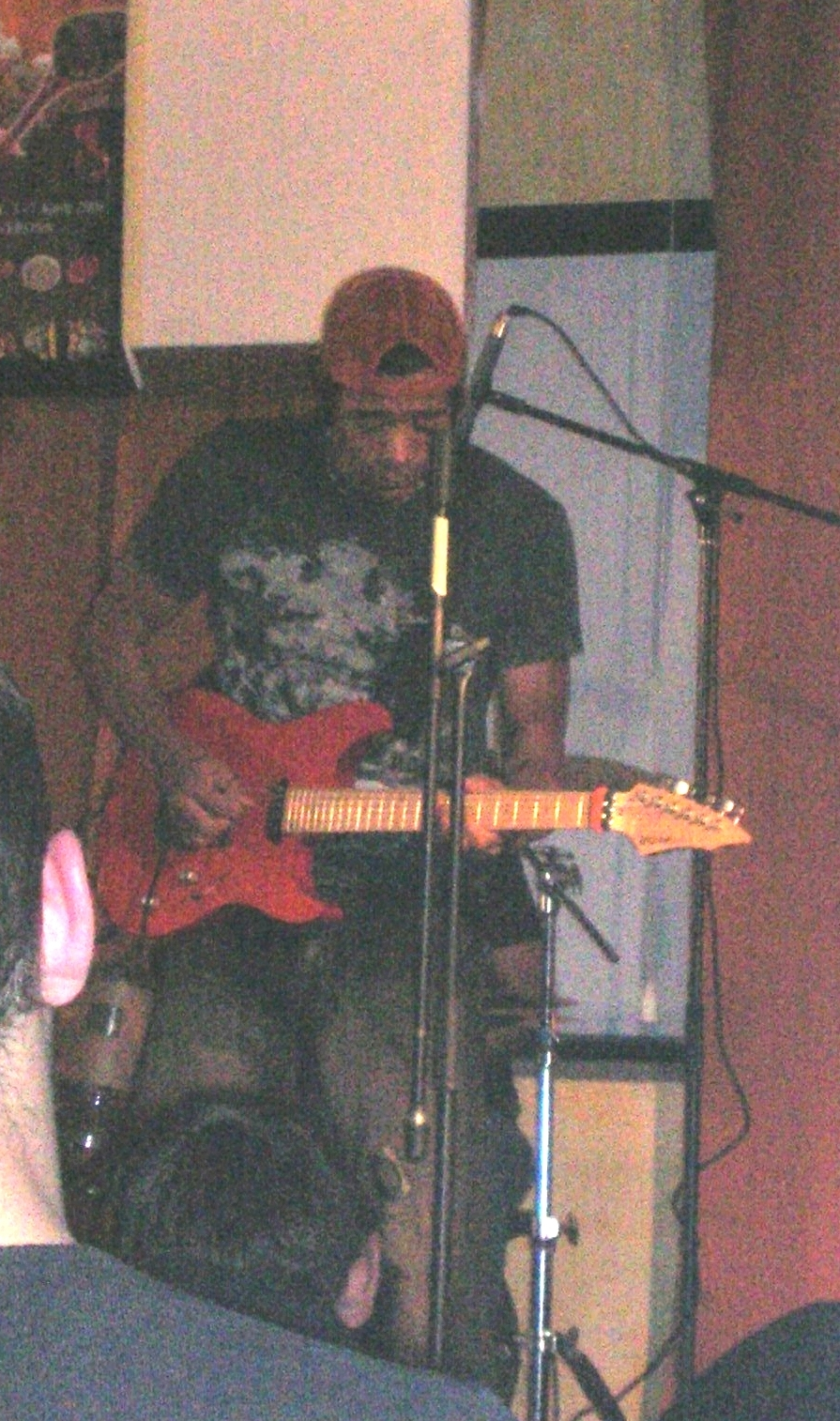 Guitarist Greg Howe in Venosa (Italy)